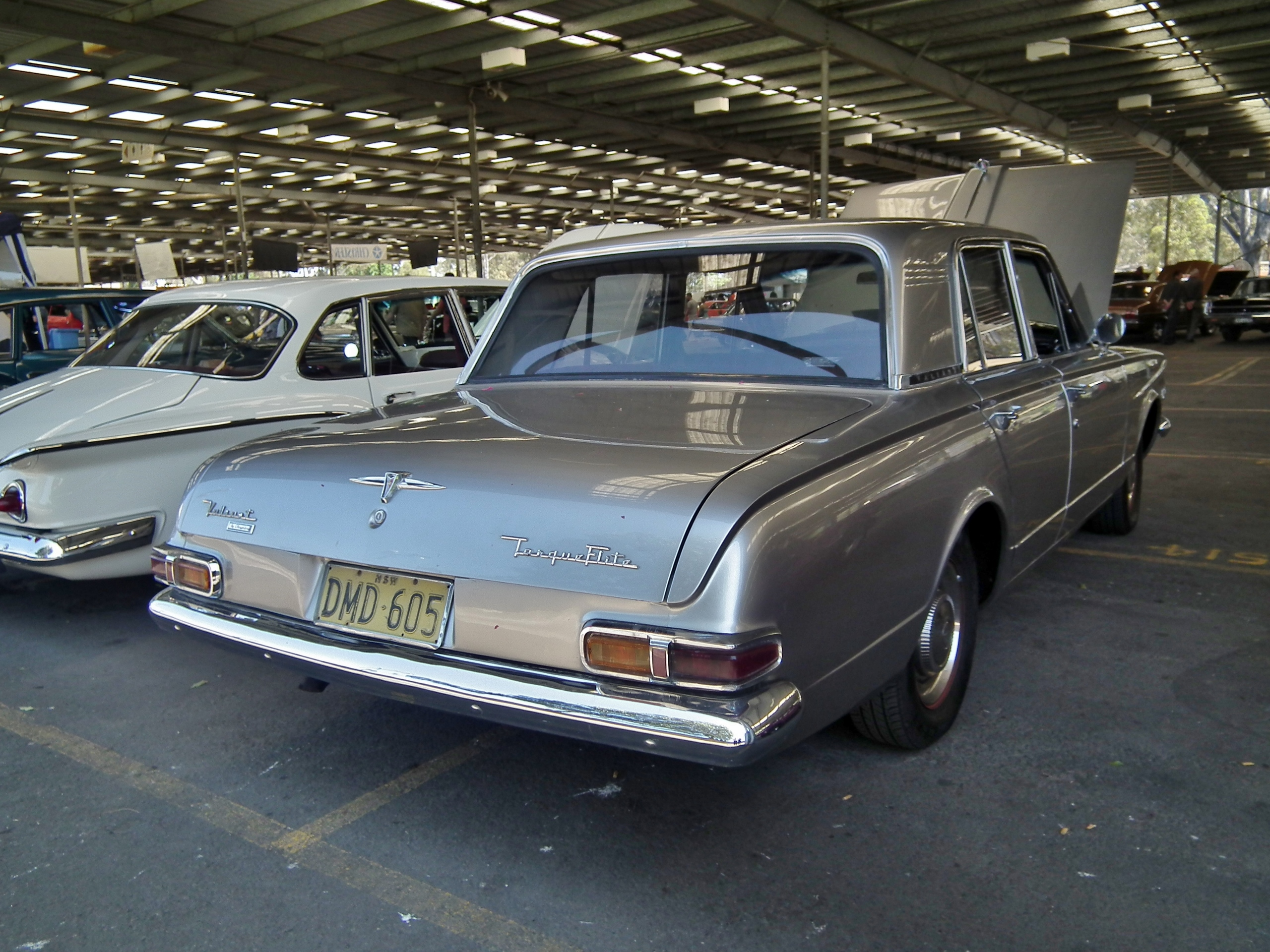 1964 Chrysler AP5 Valiant Regal sedan. Taken at the 2014 New South Wales All Chrysler Day, held at Fairfield Showground, Prairiewood, Sydney.